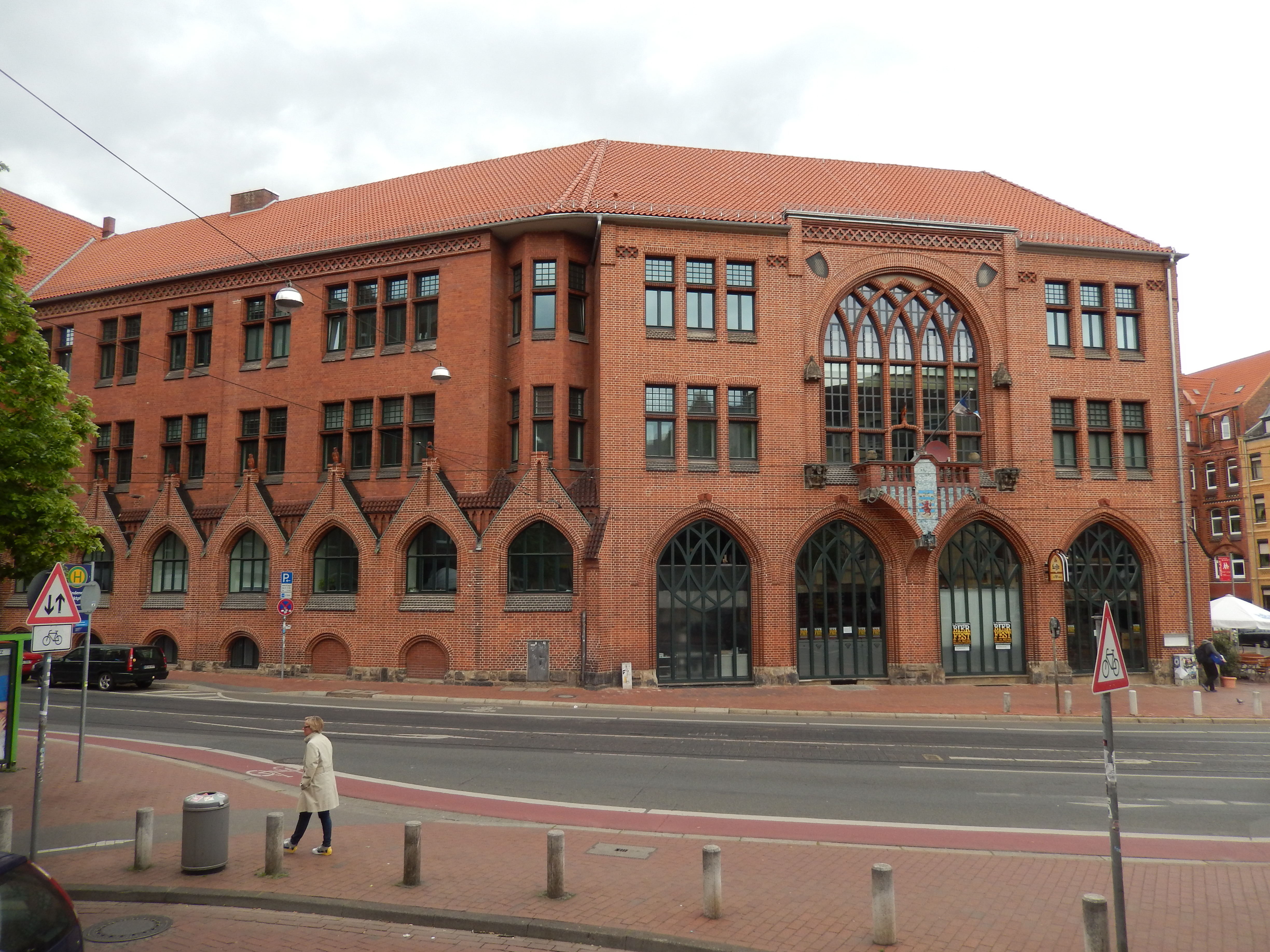 New Lindener town hall in Hannover, Germany.